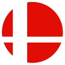 A simple circle with a pair of perpendicular lines intersecting each other on the lower-left side of the circle. Nintendo has used this image to represent the Smash Bros. series, though it is a simple geometric shape.